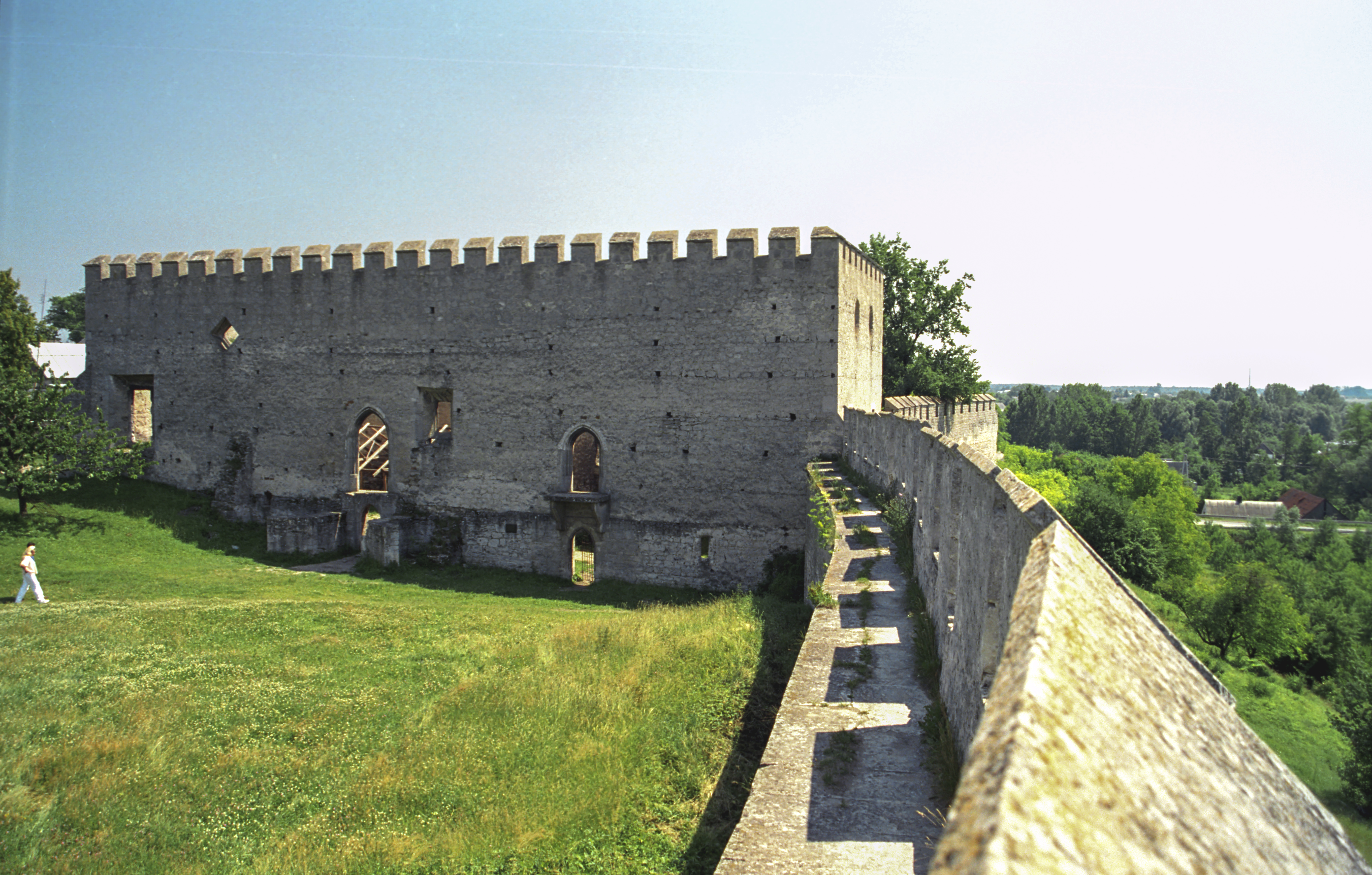 Poland, Szydlow Castle